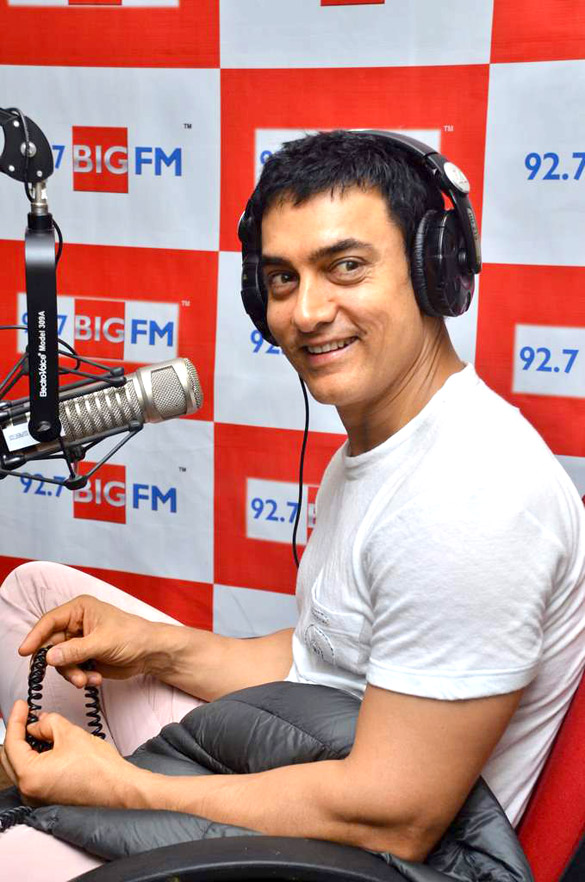 Aamir Khan at 92.7 BIG FM to promote Satyamev Jayate